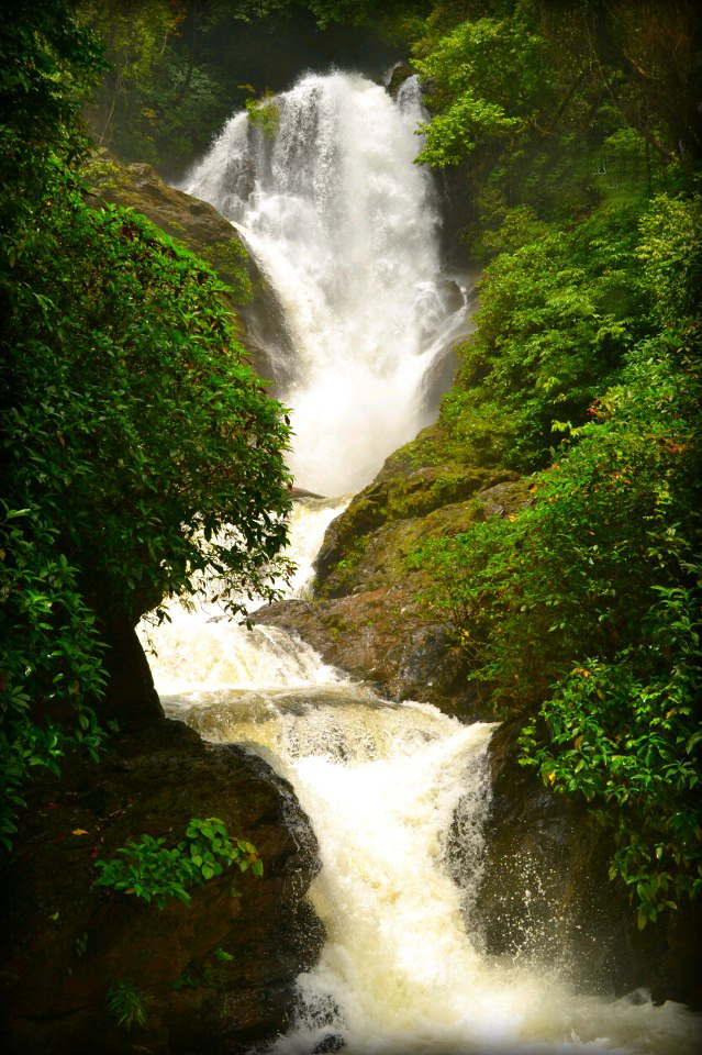 This is a photo of Vibuthi water falls in Uttar Kannada district in Karnataka, India